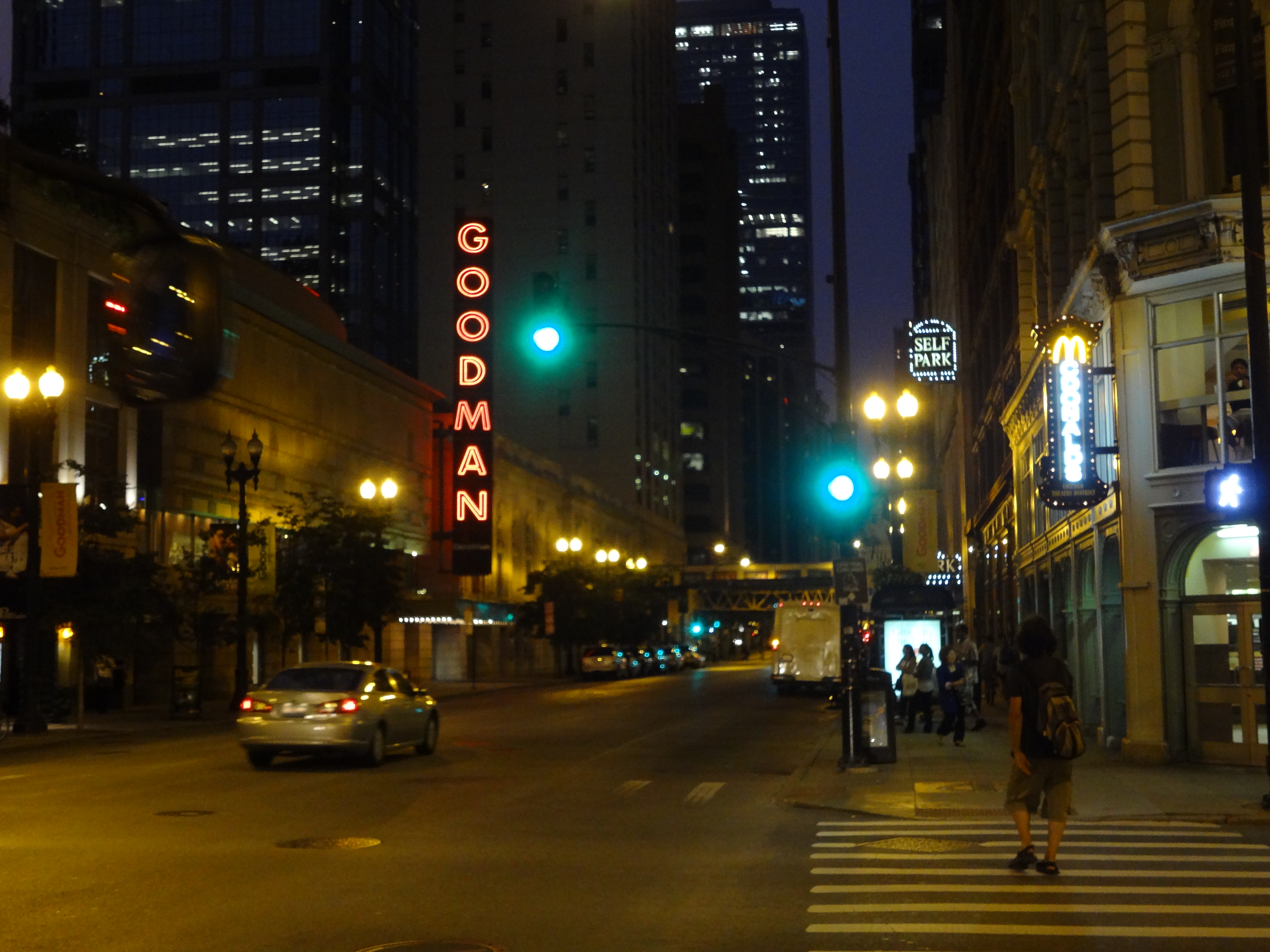 Goodman Theater 3